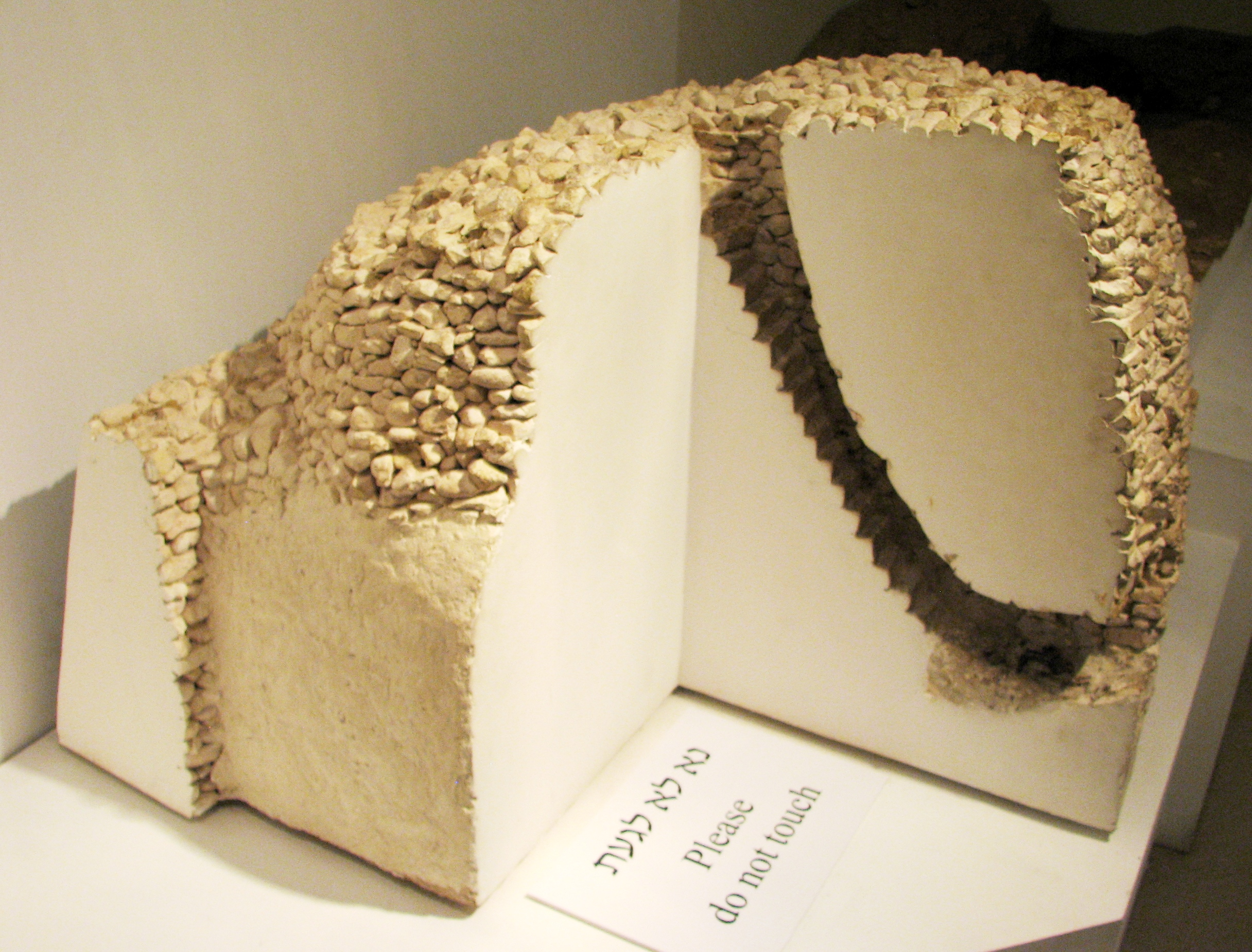 Moshe Stekelis Museum of Prehistory exhibition. Model of the round tower in Jericho, Section showing burial site of 12 skeletons. Pre-Pottery Neolithic A period